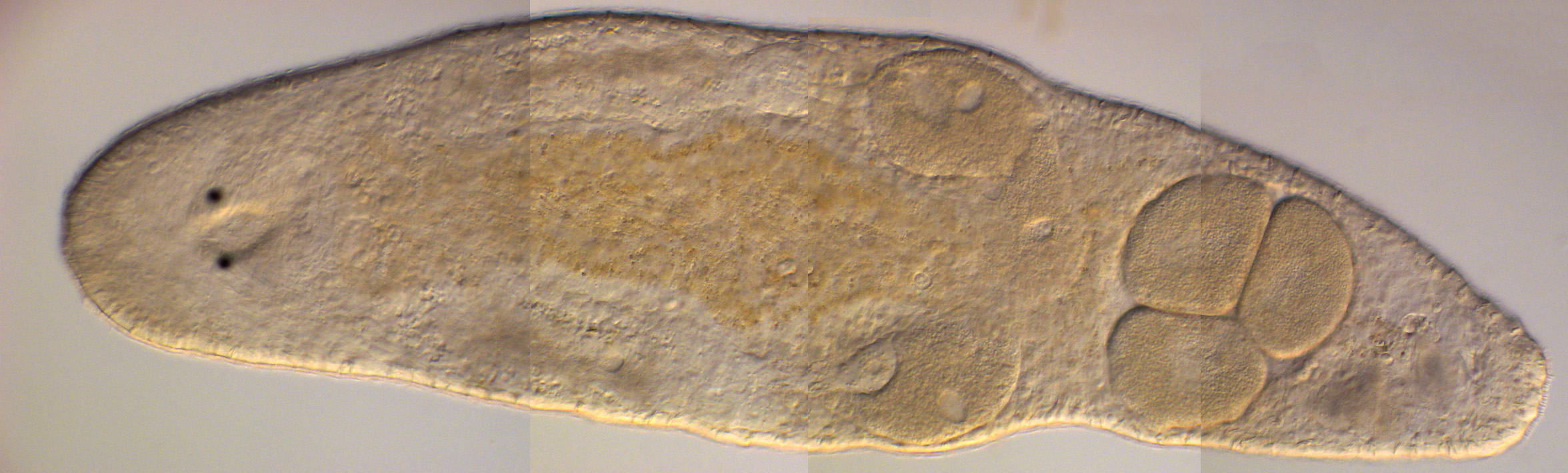 Macrostomum hystrix adult